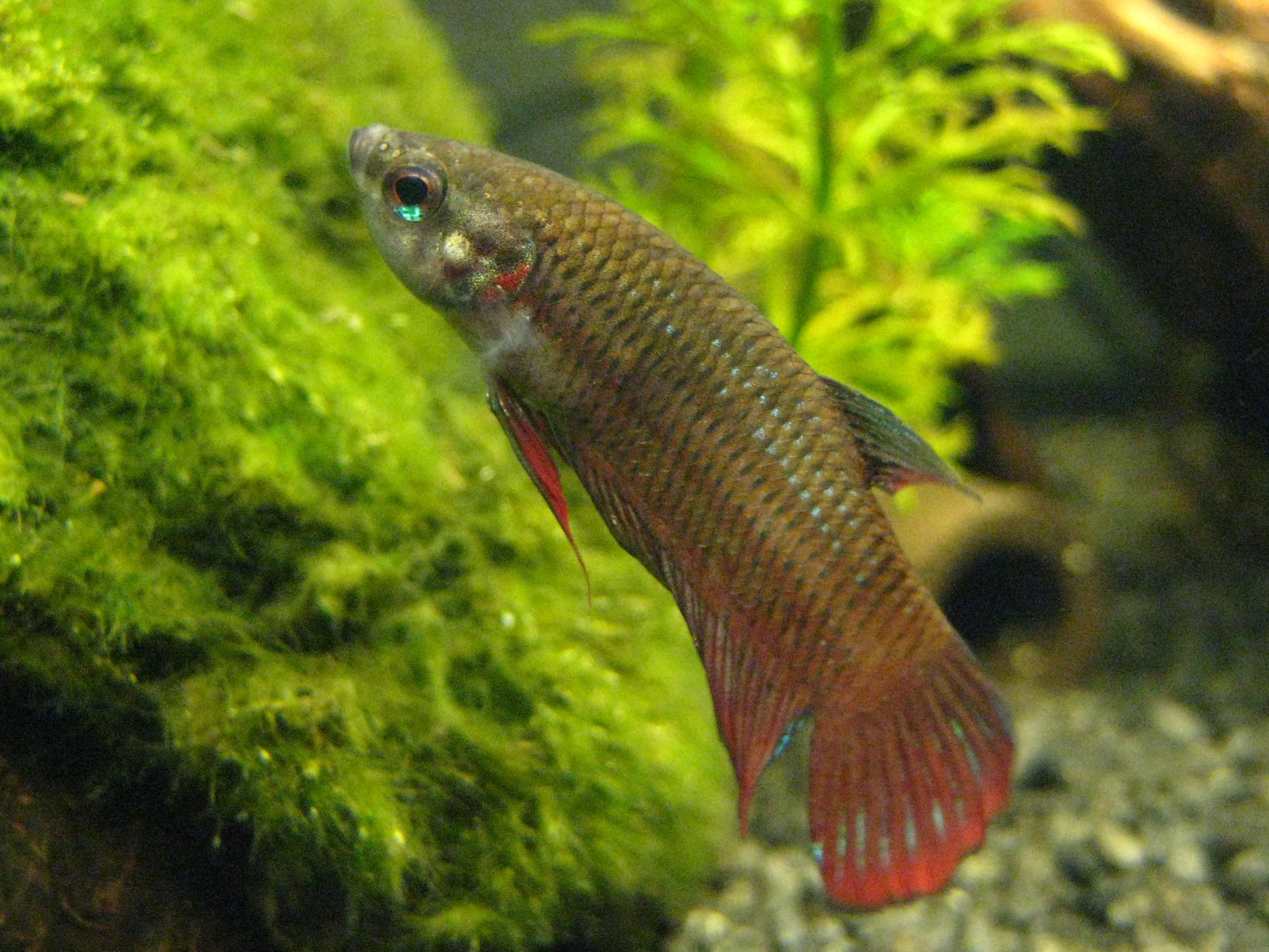 Betta tussyae (male)